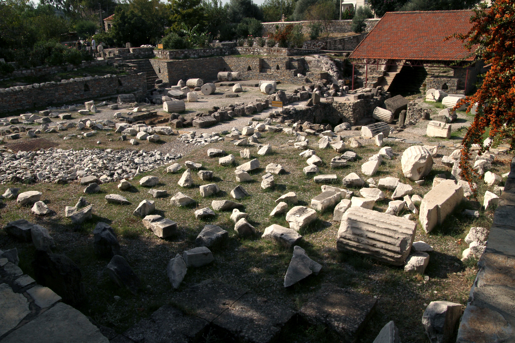 The Mausoleum of Halicarnassus at Bodrum